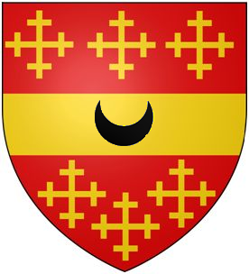 Arms of Richard de Beauchamp, 1st Earl of Worcester(d.1422): Gules, a fesse between six crosses crosslet or a crescent sable for difference. The Beauchamp arms differenced by a crescent for a second son, the second son being his father the first Baron Bergavenny (who actually displayed a mullet argent for difference). Source: As per his seal affixed to Cardiff Inspeximus 20th April 1421, published as Charter no.MCXVI. Clark, G.T., Cartae et Alia Munimenta Quae ad Dominium de Glamorgancia Pertinent, Cardiff, 1910, Charters DCCCCLII-MCXCIV, Volume 4